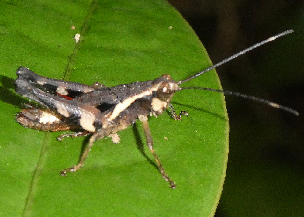 Striatosedulia cf cattiensis taken in Nam Cát Tiên